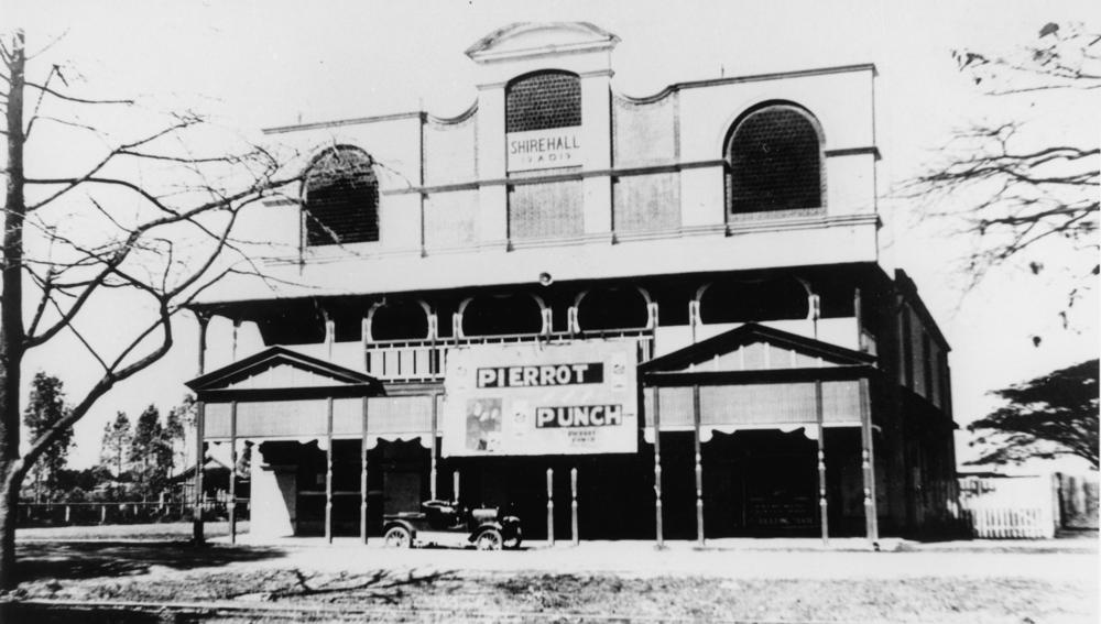 Ingham Shire Hall building, Queensland, ca. 1922 Sign in front of the shire offices advertises an upcoming entertainment. The building has a classical facia above a two storeyed office building.